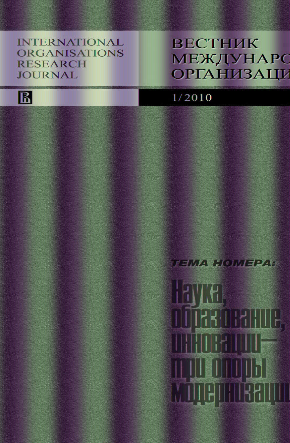 IORJ